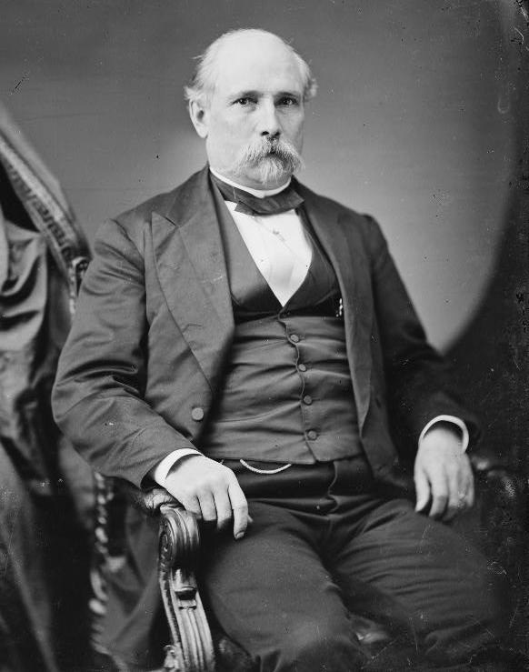 James L. Alcorn, head-and-shoulders portrait, facing front